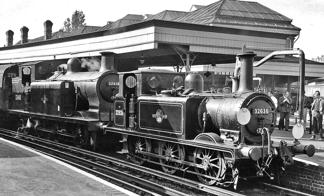 RCTS Sussex Rail Tour at Lewes. View NW, towards Brighton to the left, Haywards Heath and London to the right; ex-LB&SCR London/Brighton - Eastbourne/Hastings/Seaford lines; also to the right the unelectrified lines went via East Grinstead and Eridge to Oxted and London. The Tour, which was from London (see TQ3380 : London Bridge (Central ) Station, with 'Schools' 4-4-0 on a Rail Tour), was headed from and to Brighton by these two ex-LB&SC locomotives: Stroudley A1X class 0-6-0T No. 32636 and R. Billinton E6 class 0-6-2T No. 32418 (for details see TQ4401 : Newhaven Locomotive Depot with ex-LB&SC 0-6-0T and 0-6-2T)